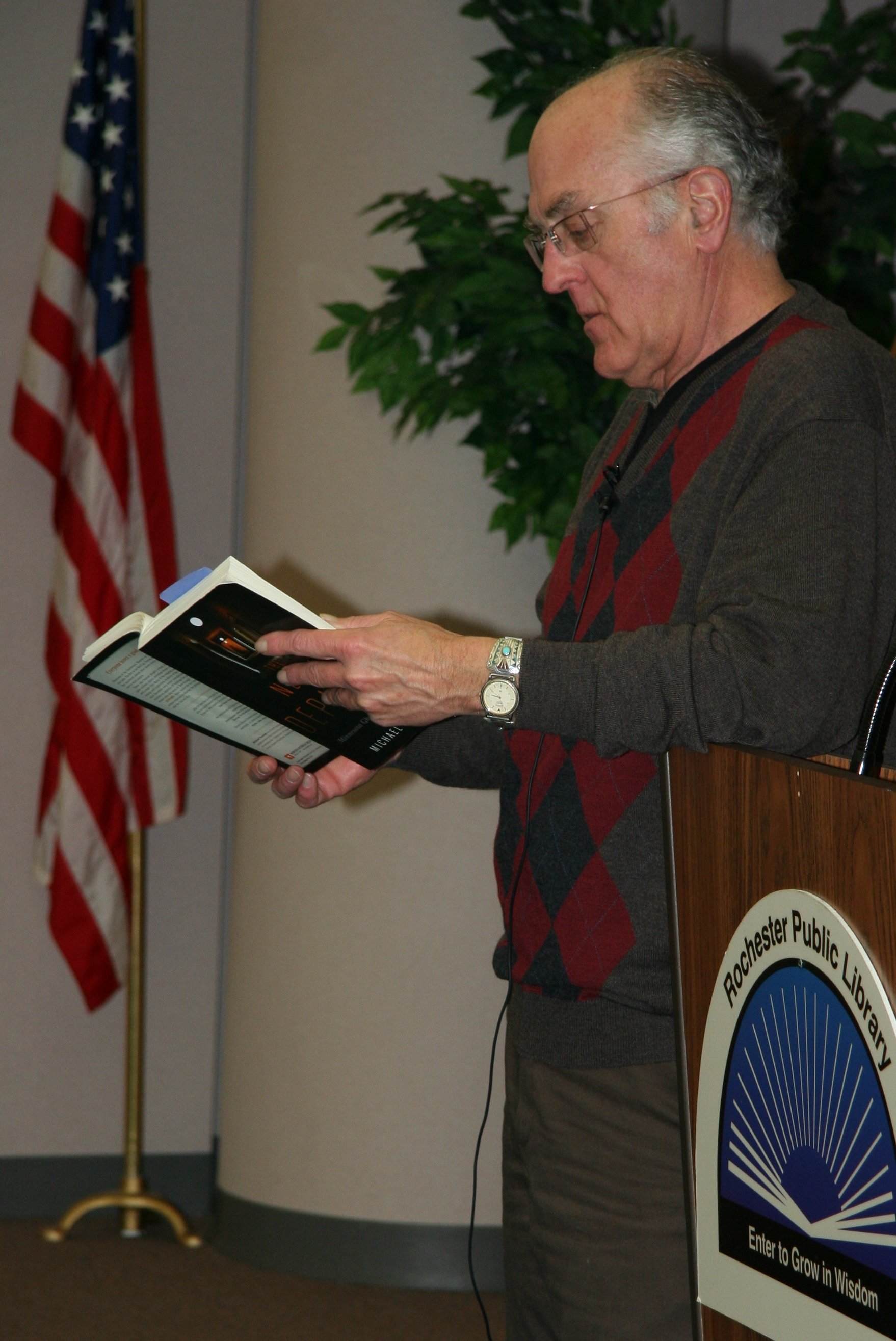 Michael Norman reads from his book "The Nearly Departed" at the Public Library in Rochester, Minnesota